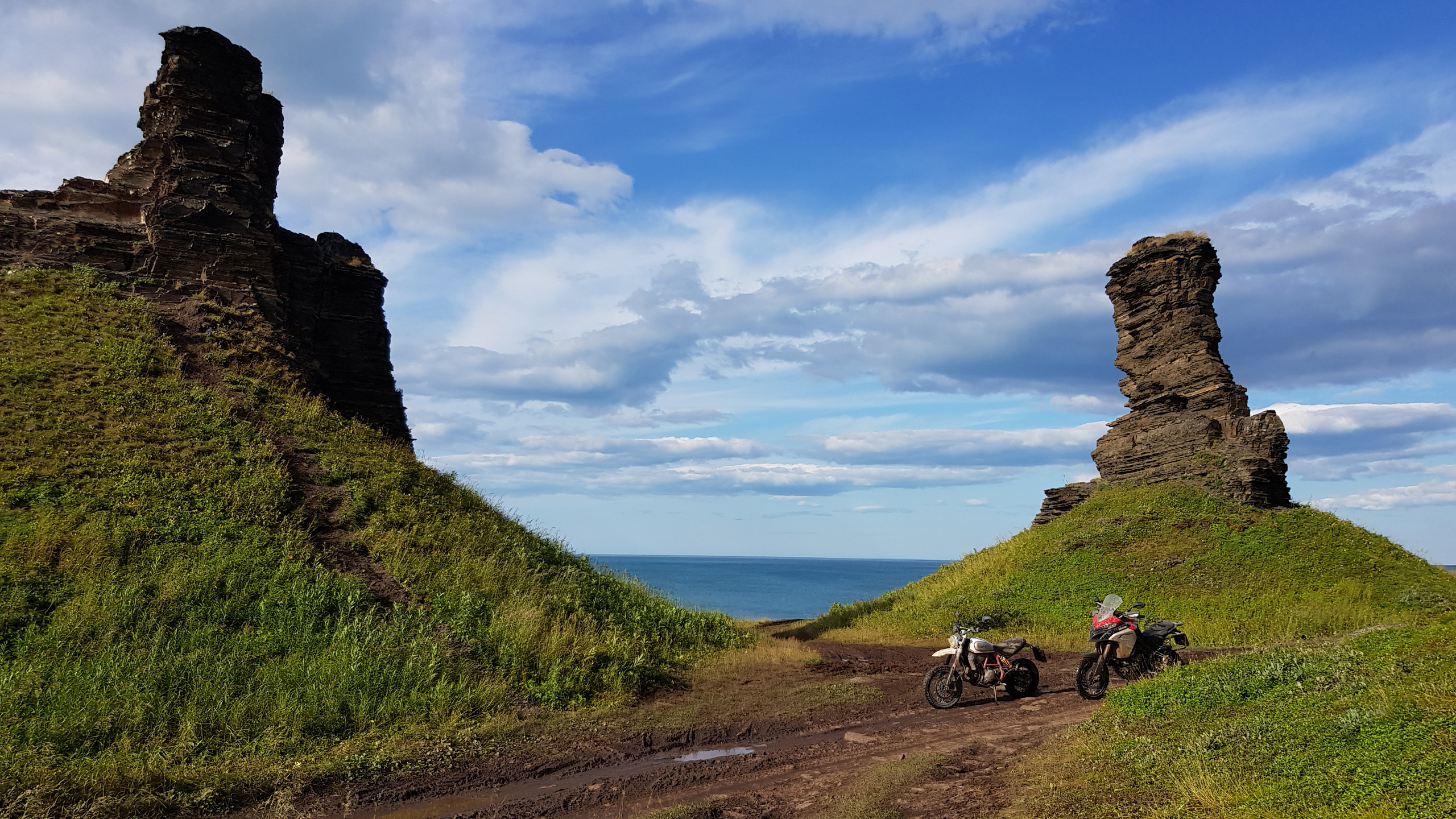 Two italian motorbikes near rocks "two brothers", Russia, peninsula Sredniy